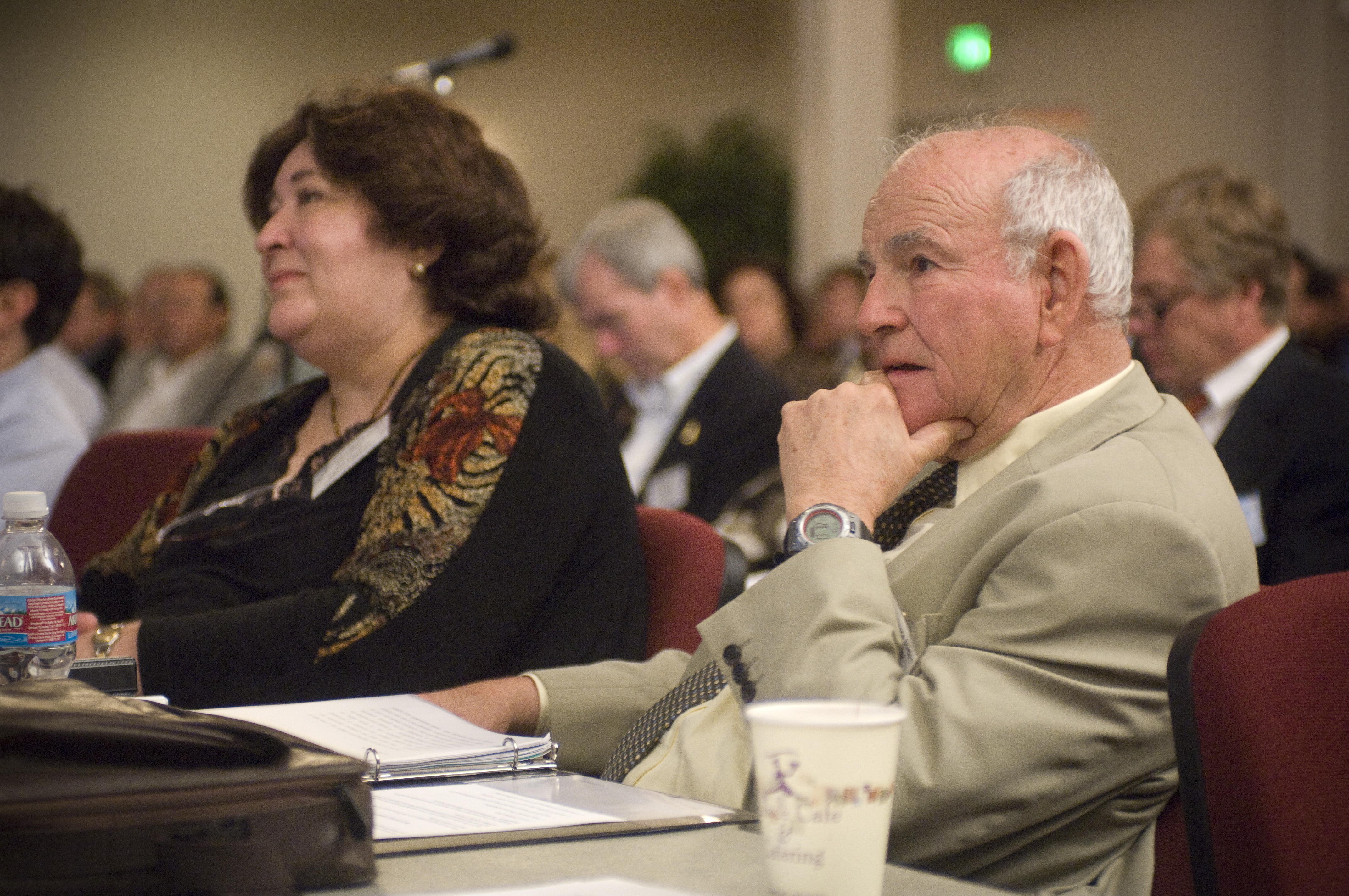 Lynn Harper of NASA's Ames Research Center and Dr. Baruch Blumberg attended the International Space Station (ISS) National Laboratory Workshop in October 2007.